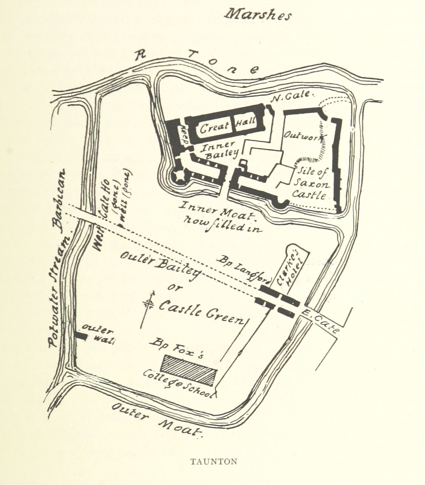 A plan of Taunton Castle taken from: Title: "The Castles of England: their story and structure ... With ... illustrations and ... plans" Author: MACKENZIE, James Dixon - Sir, Bart Contributor: MACNAIRN, J. Shelfmark: "British Library HMNTS 10369.v.7." Volume: 02 Page: 99 Place of Publishing: London Date of Publishing: 1897 Publisher: W. Heinemann Issuance: monographic Identifier: 002322661 Note: The colours, contrast and appearance of these illustrations are unlikely to be true to life. They are derived from scanned images that have been enhanced for machine interpretation and have been altered from their originals. If you wish to purchase a high quality copy of the page that this image is drawn from, please order it here. Please note that you will need to enter details from the above list - such as the shelfmark, the page, the book's volume and so on - when filling out your order. Explore: Find this item in the British Library catalogue, 'Explore'. Open the page in the British Library's itemViewer (page: 99) Download the PDF for this book Click here to see all the illustrations in this book and click here to browse other illustrations published in books in the same year. Please click on the tags shown on the right-hand side for other ways to browse the illustrations.